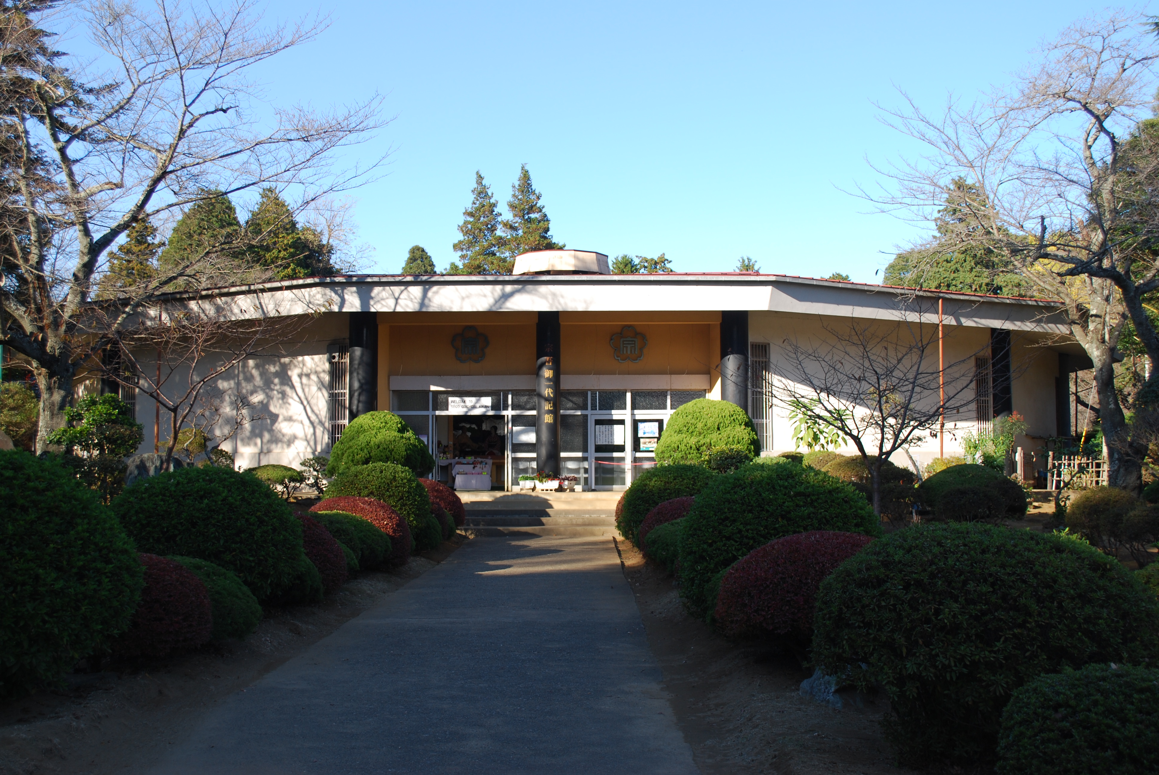 toshoji-temple sogo-goitidaikikan,narita-city,japan